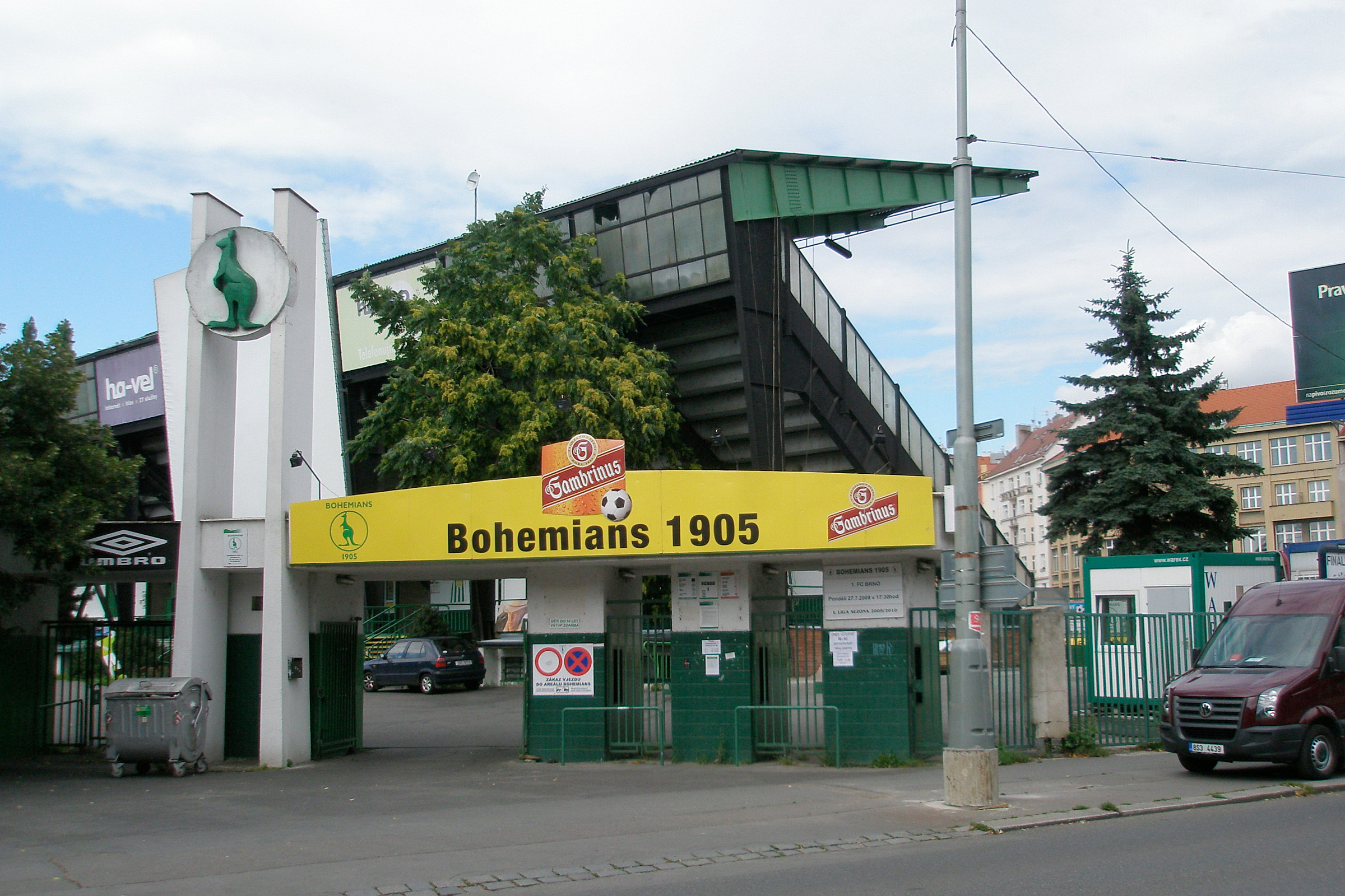 Enter to stadium of Czech football club Bohemians 1905